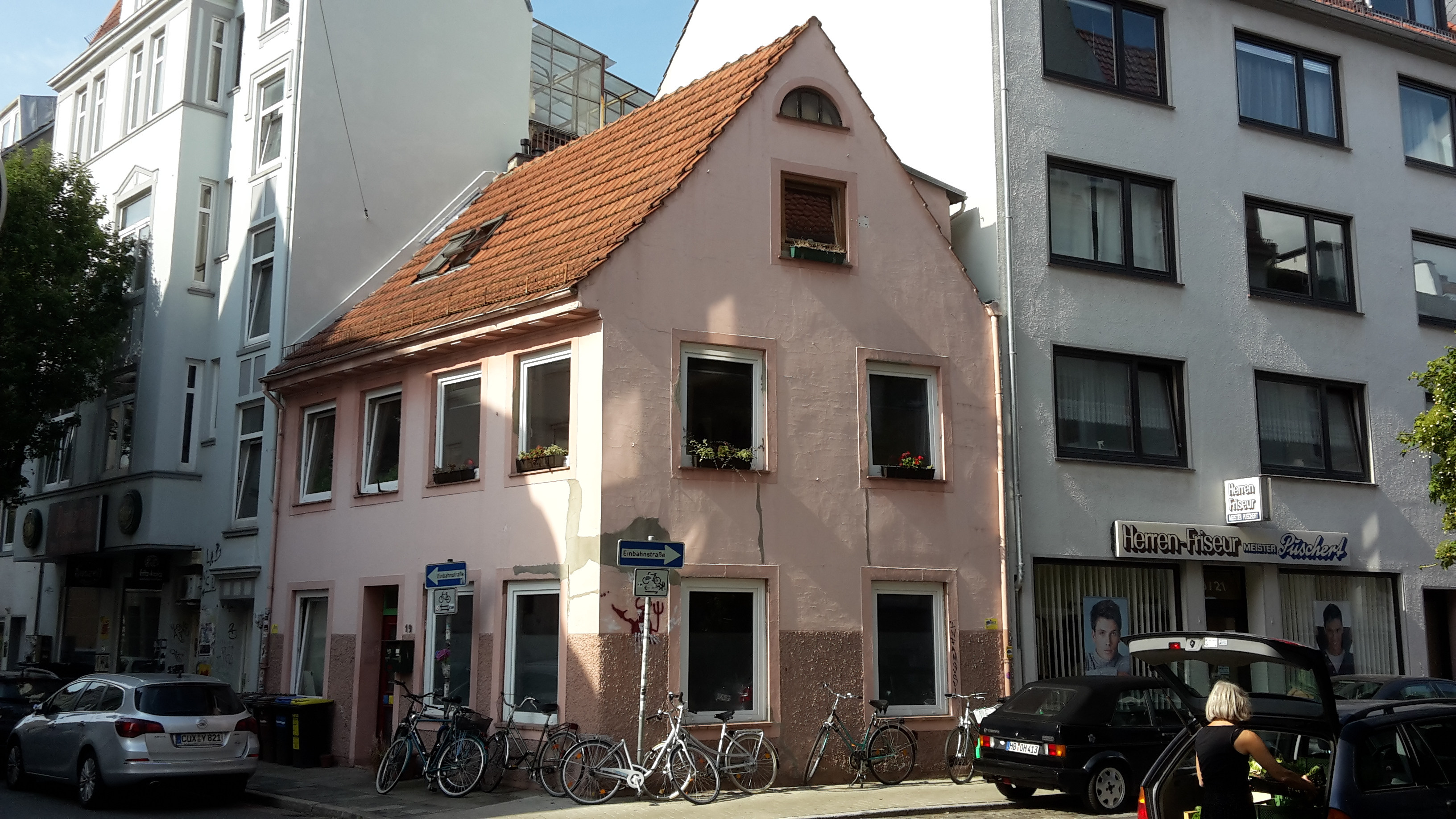 Bremen Alte Neustadt Kleine Annenstraße 19